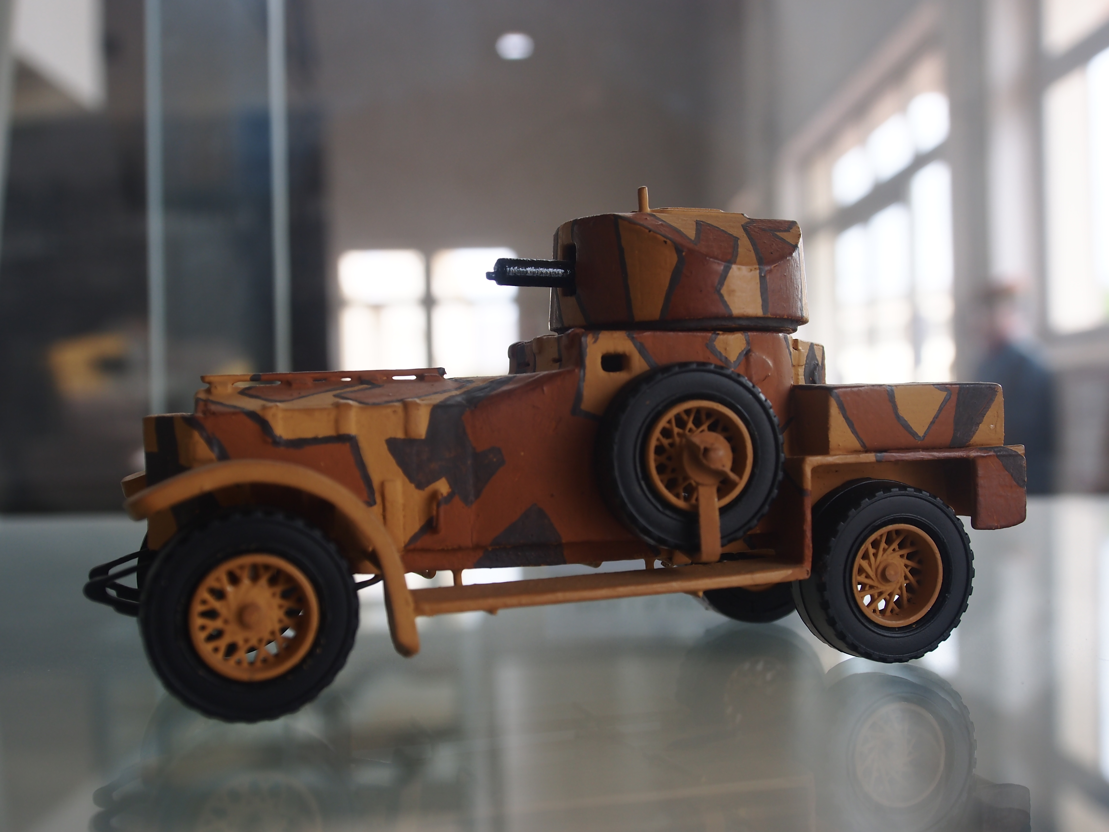 Photographed in the Musée des Blindés, France.